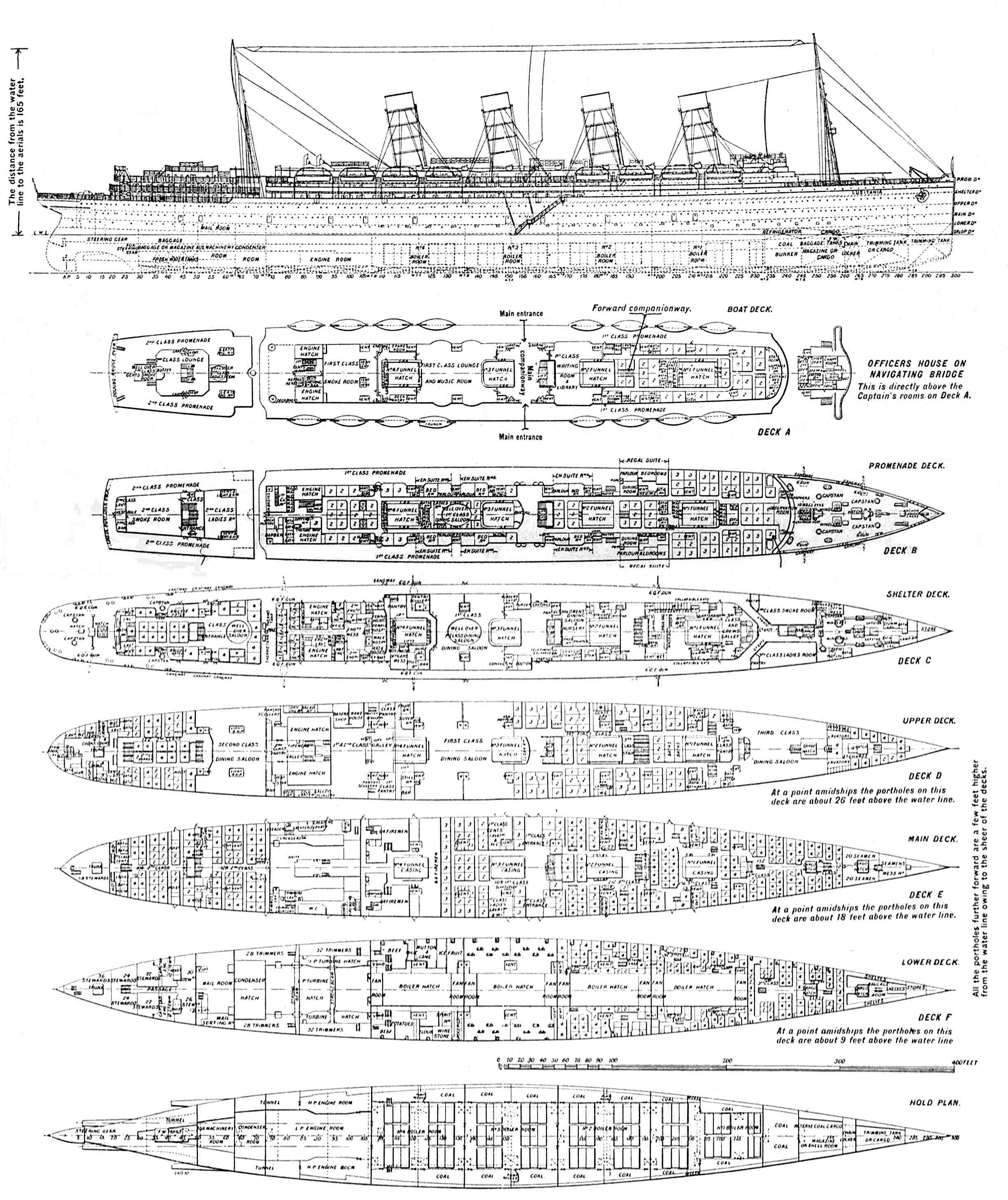 Drawings of deck layout on RMS Lusitania as designed. Laid down 1904, sunk by torpedo 1915 off Queenstown, Ireland. Note that some alterations were made to the layout during construction. lifeboat arrangement was changed later so that in 1915 there were 11 boats either side plus collapsible boats stored under each lifeboat and on the after deck rather than the 16 shown.